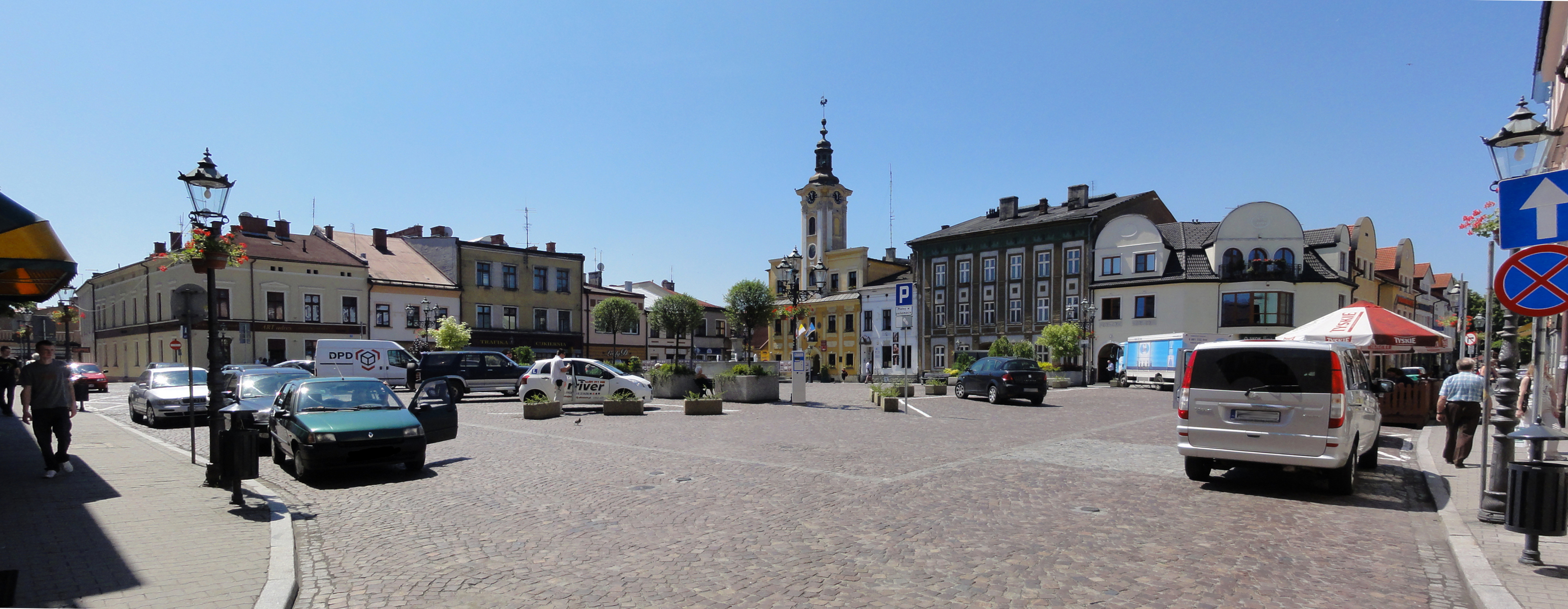 Market Square in Skoczów as seen from NE corner